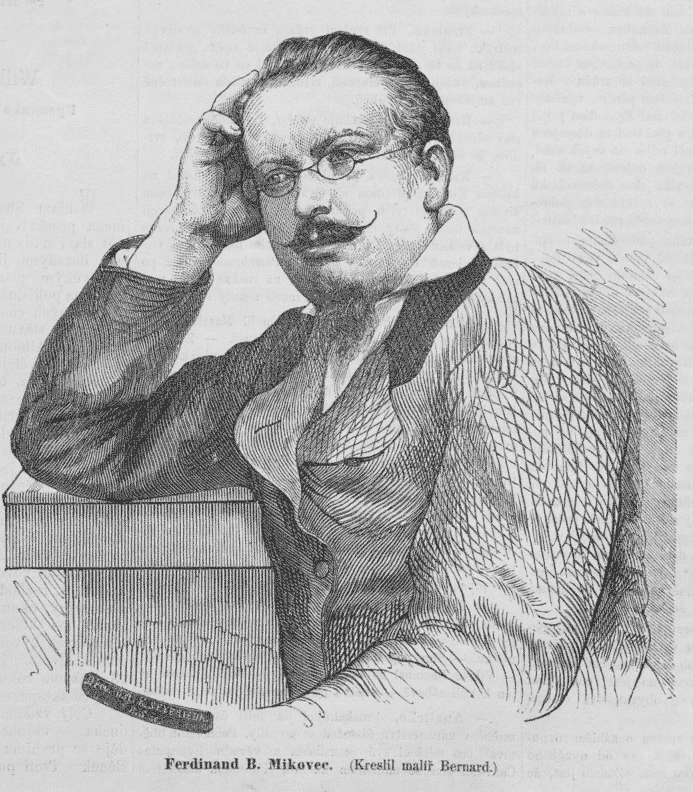 Portrait of Ferdinand Břetislav Mikovec, Czech writer and publisher (1826 - 1862)